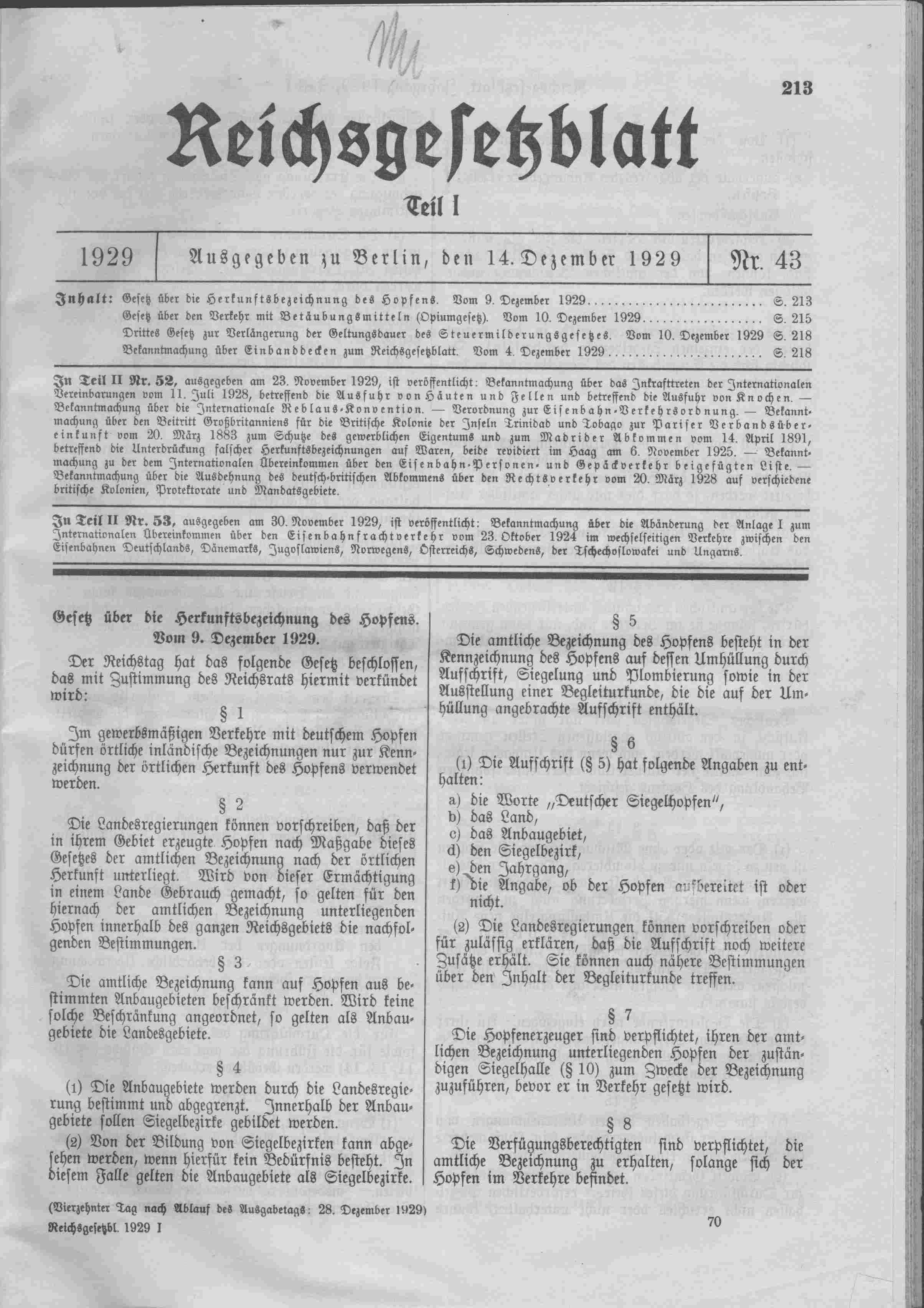 Scan from the Imperial Law Gazette of Germany, 1929, part 1